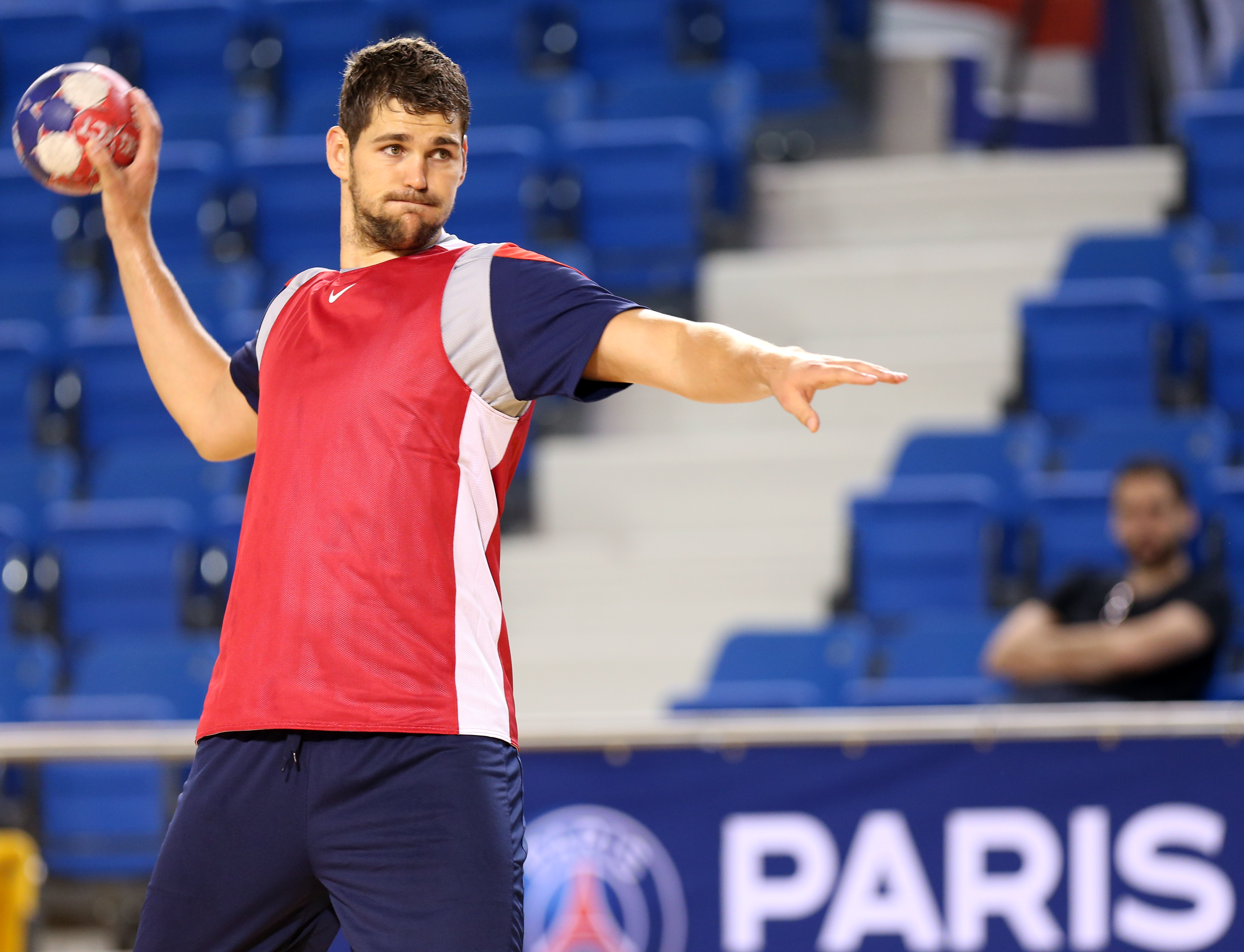 PSG Handball's Croatian player Jakov Gojun during a training session at the ASPIRE Academy in Doha. Pic by Vinod Divakaran